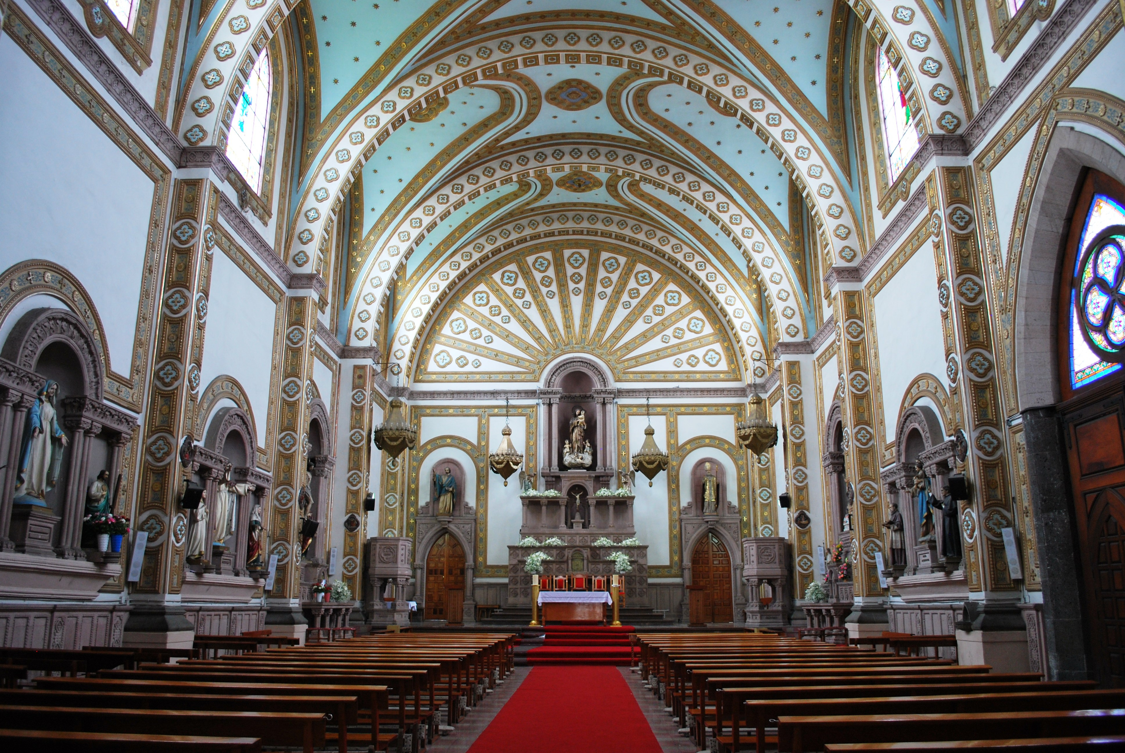 Inside the Chapitel del Calvario Church on Morelos Street in Cuernavaca, Morelos, Mexico